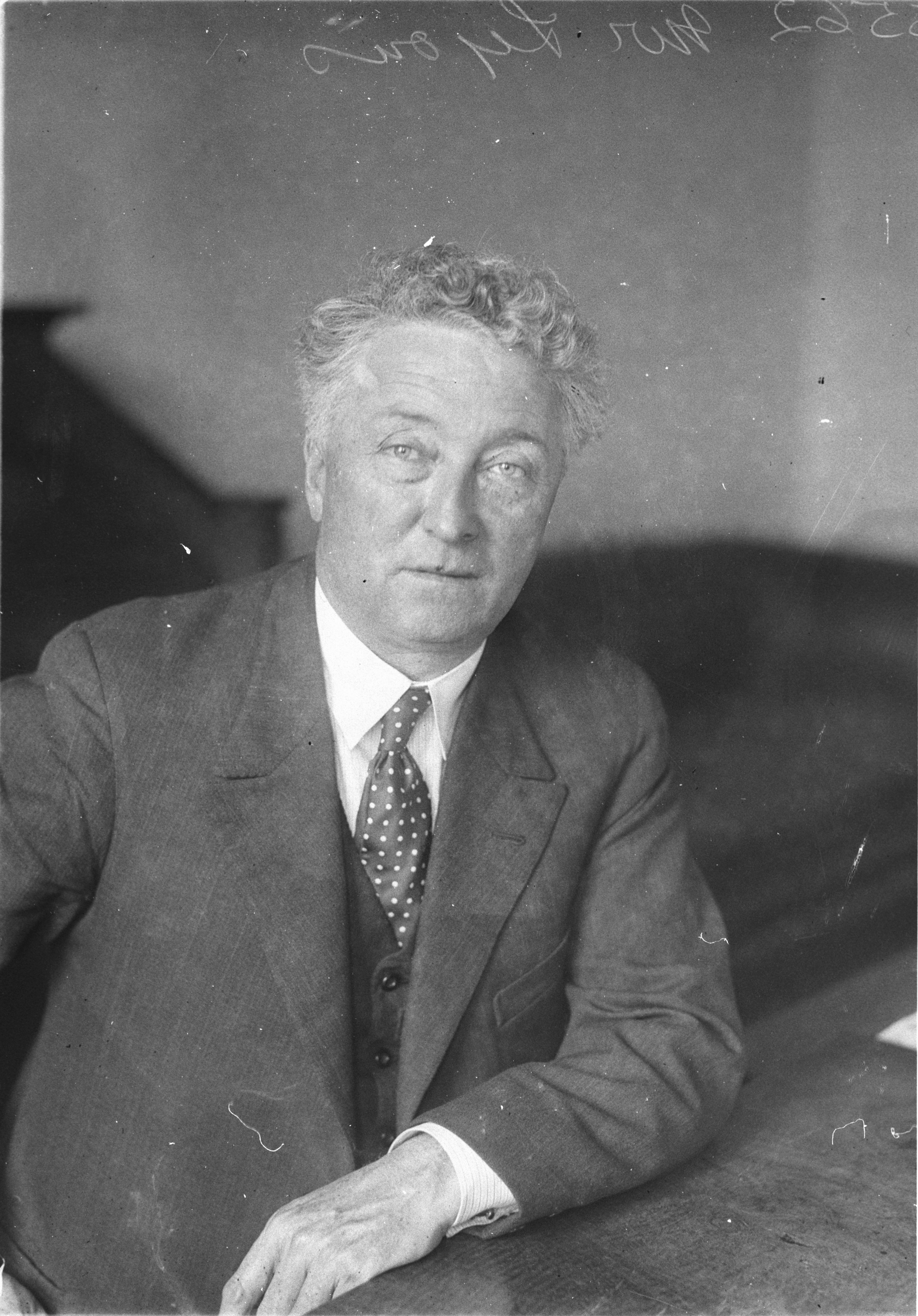 Studio portrait of Prime Minister Joseph Lyons